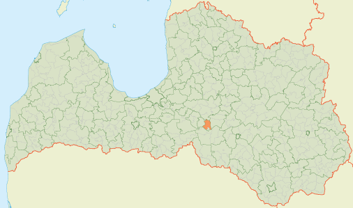 Location map of Aizkraukle parish, Aizkraukle municipality, Latvia.